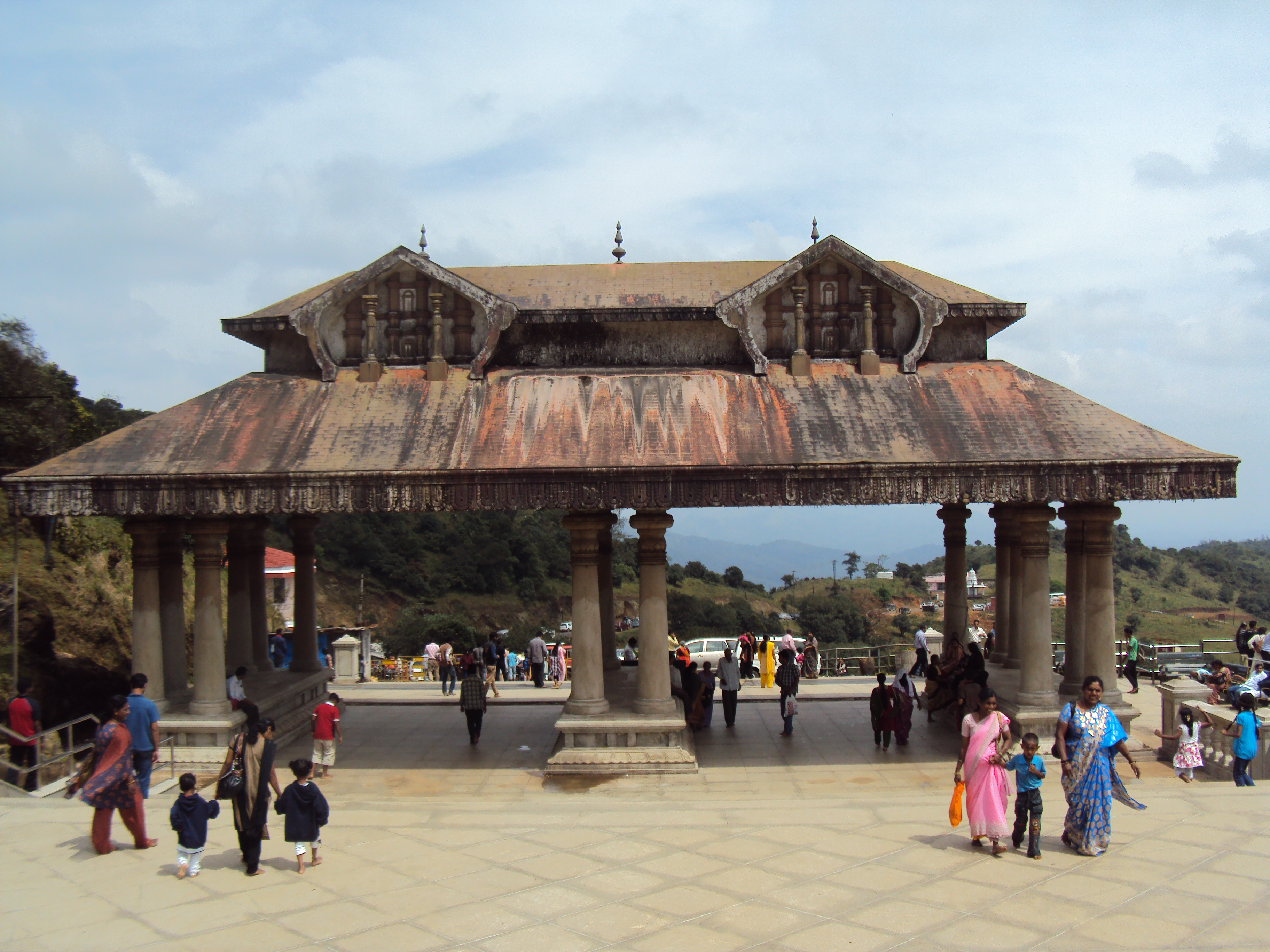 Virajpet - Talakaveri road views